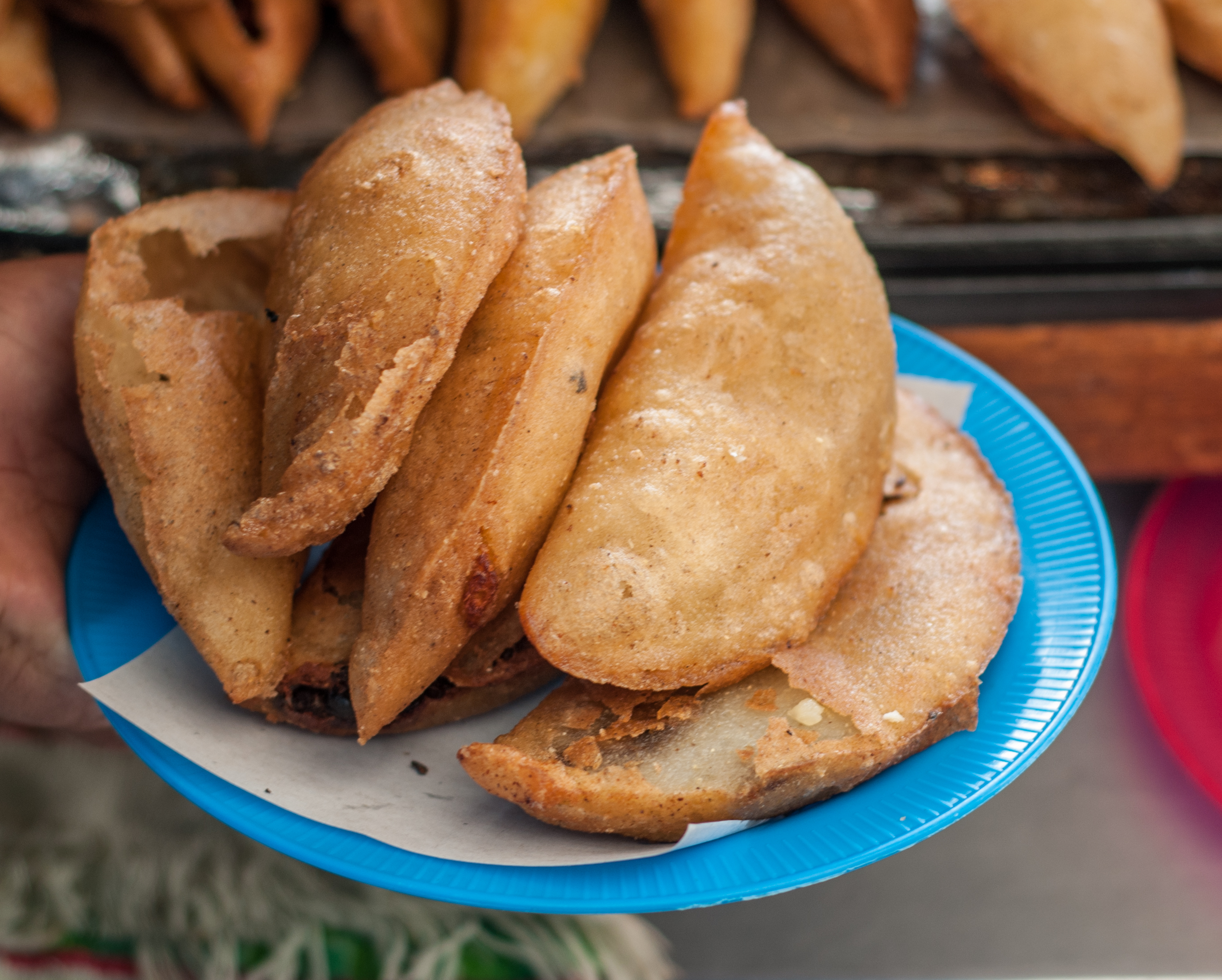 Empanadas Zulianas